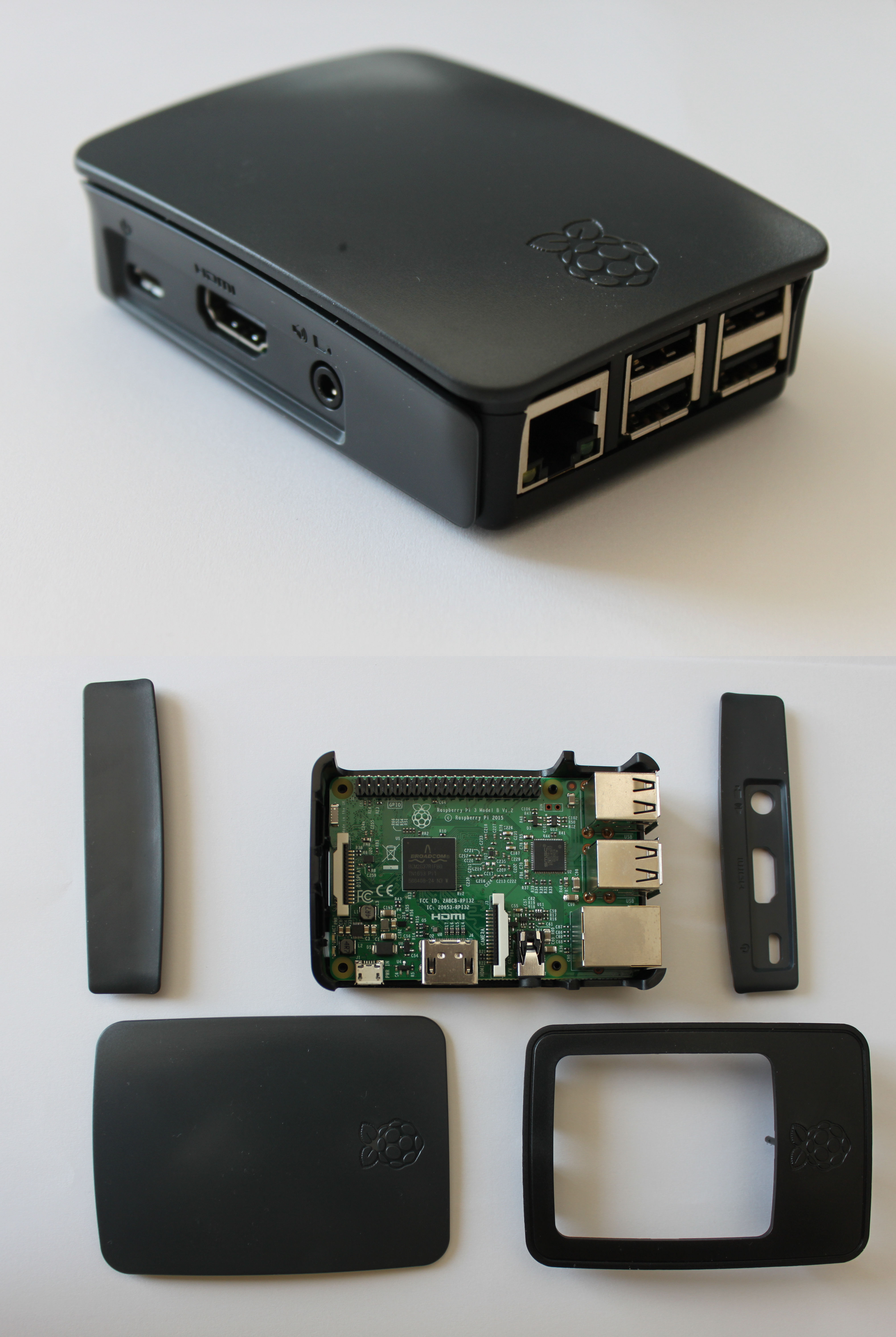 Raspberry Pi 3 Model B official case